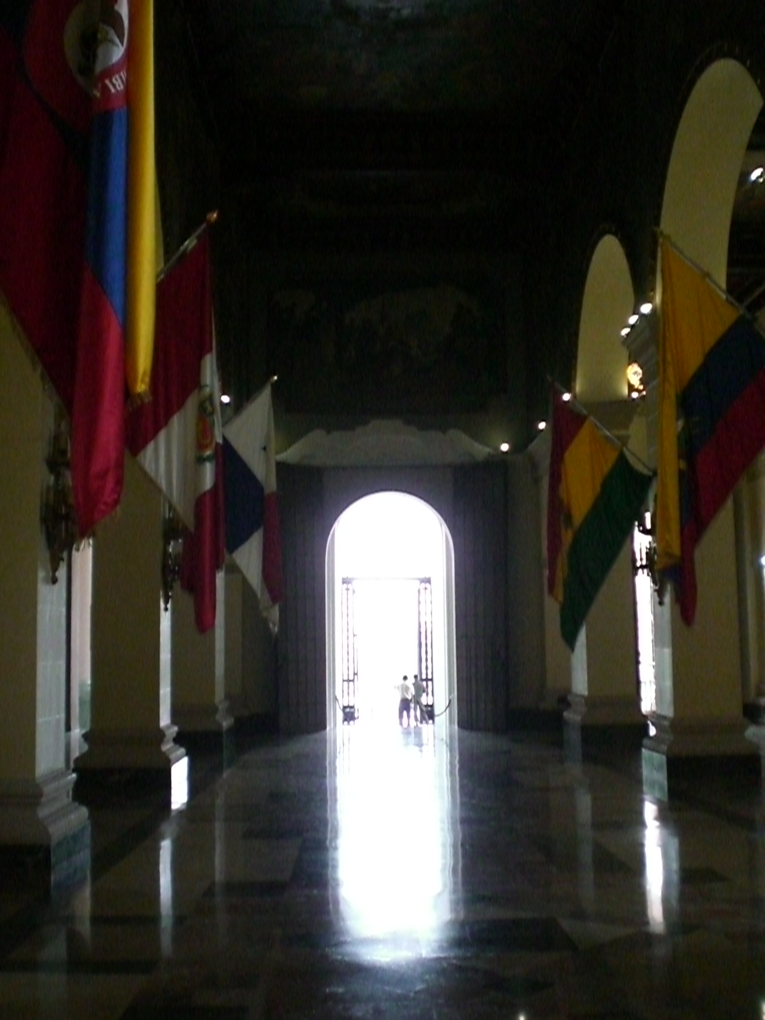 Entrance of the National Pantheon of Venezuela.